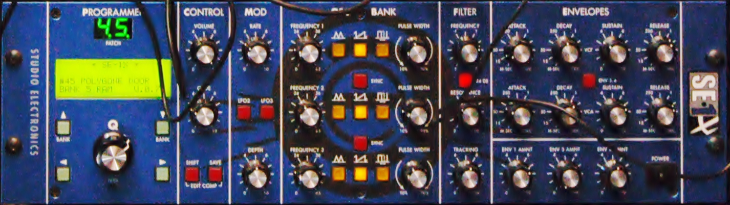 Studio Electronics SE-1X Bay Area Synth Meet January 28, 2011 Granular Matter